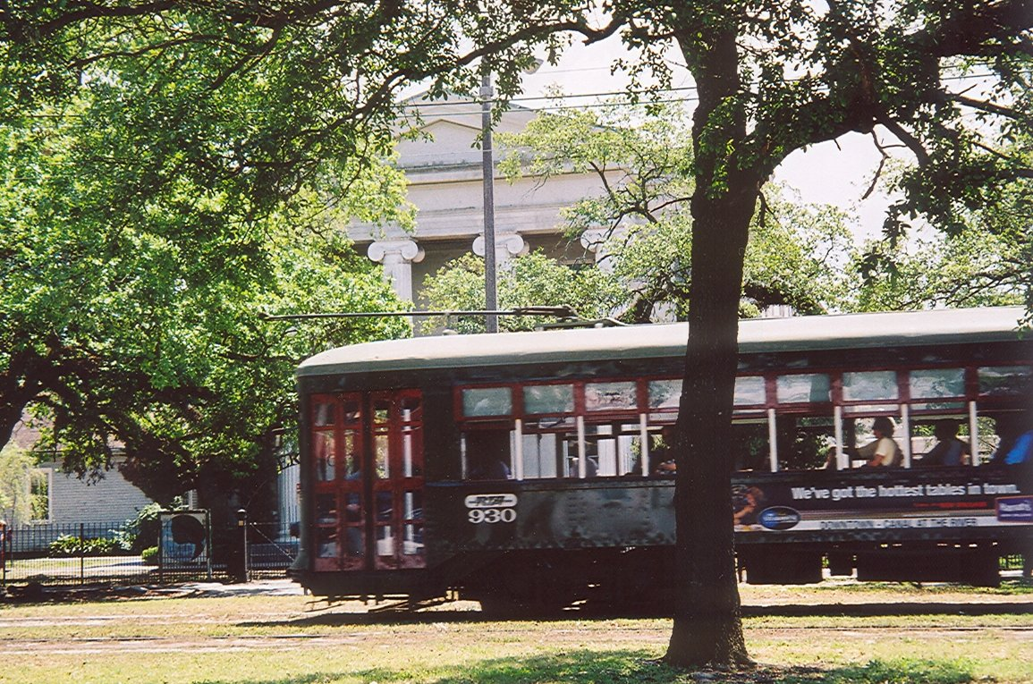 1920s Pearly Thomas Streetcar passing old Carrollton City Hall Building, Carrollton Avenue, Uptown New Orleans